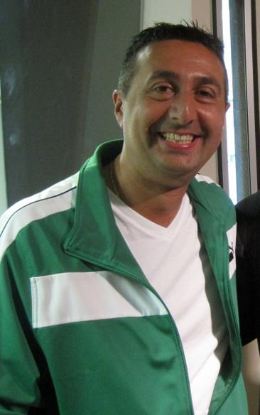 Lino Rulli (cropped).